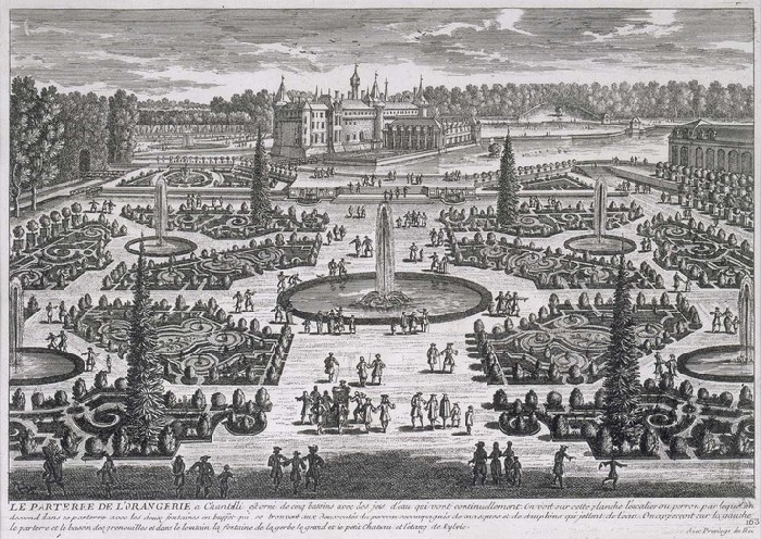 The parc level of the Orangerie, Chantilly Castle, graved by Adam Perelle (1640–1695)